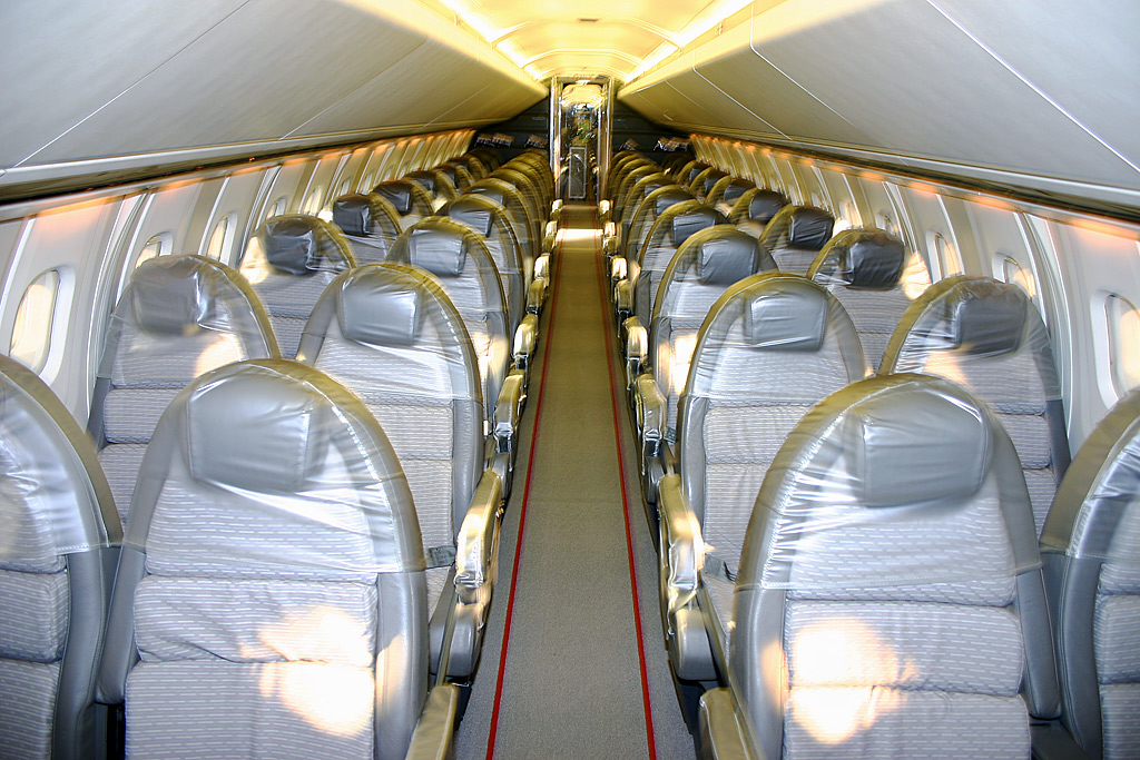 British Airways Concorde cabin interior.